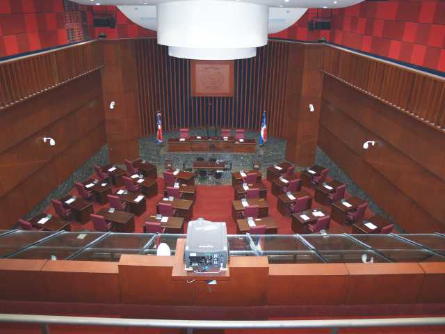 This is a picture of the empty floor of the Chamber of the Senate of the Dominican Republic seen from the visitors balcony.